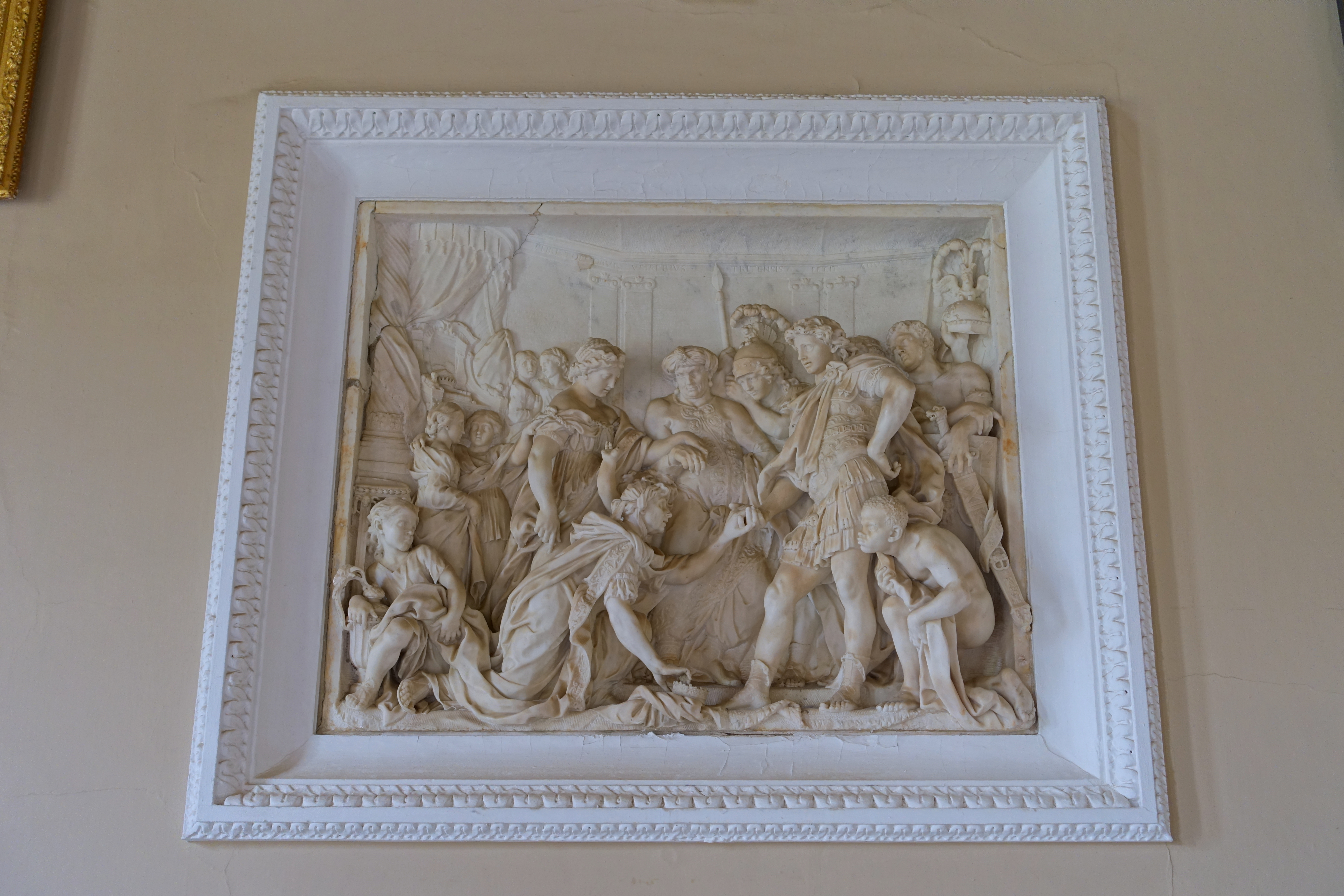 The Family of Darius Before Alexander, by Christophe Veyrier, c. 1680, marble - Stowe House - Buckinghamshire, England.